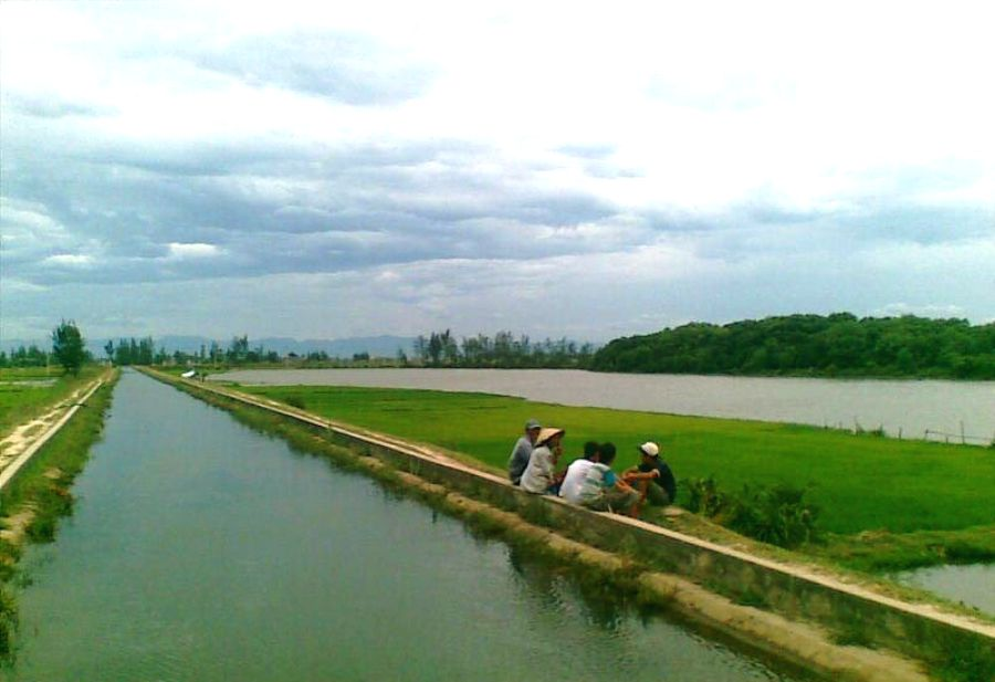 Bàu Đông primary pond.